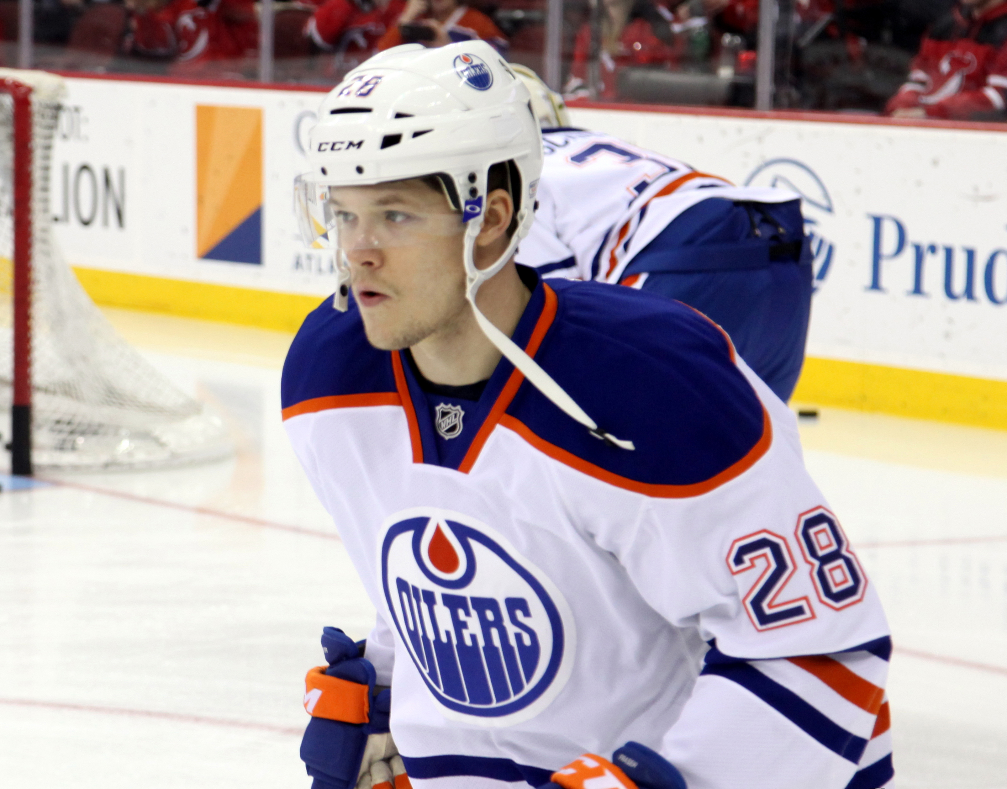 Lauri Korpikoski, 2015.